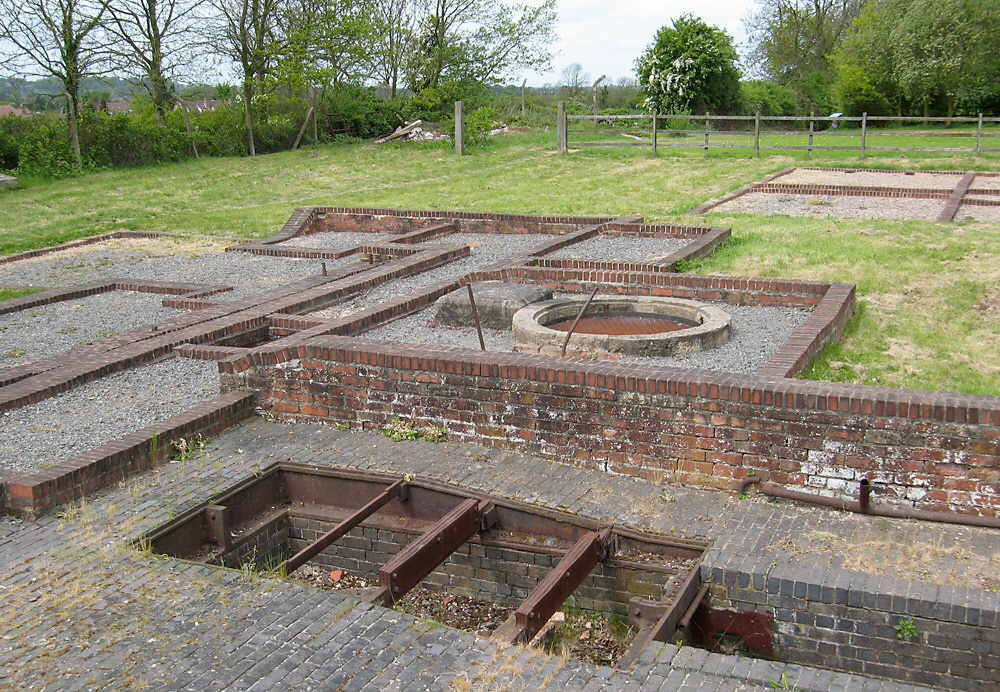 The remains of the engine house at the top of Swannington incline. The descent down the incline starts in the right background, marked by a just visible white information board.